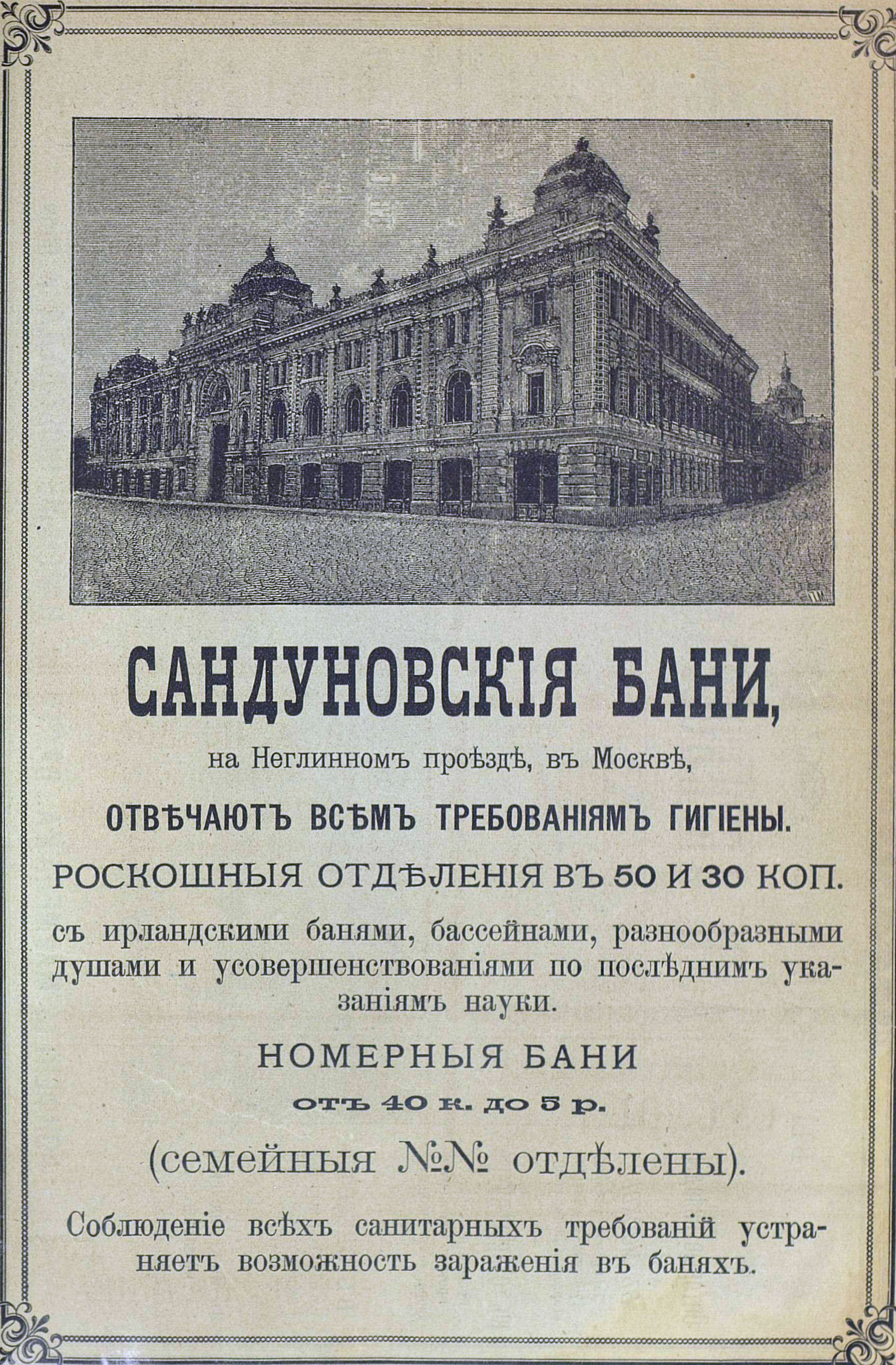 Sanduny Baths advertisement, 1897